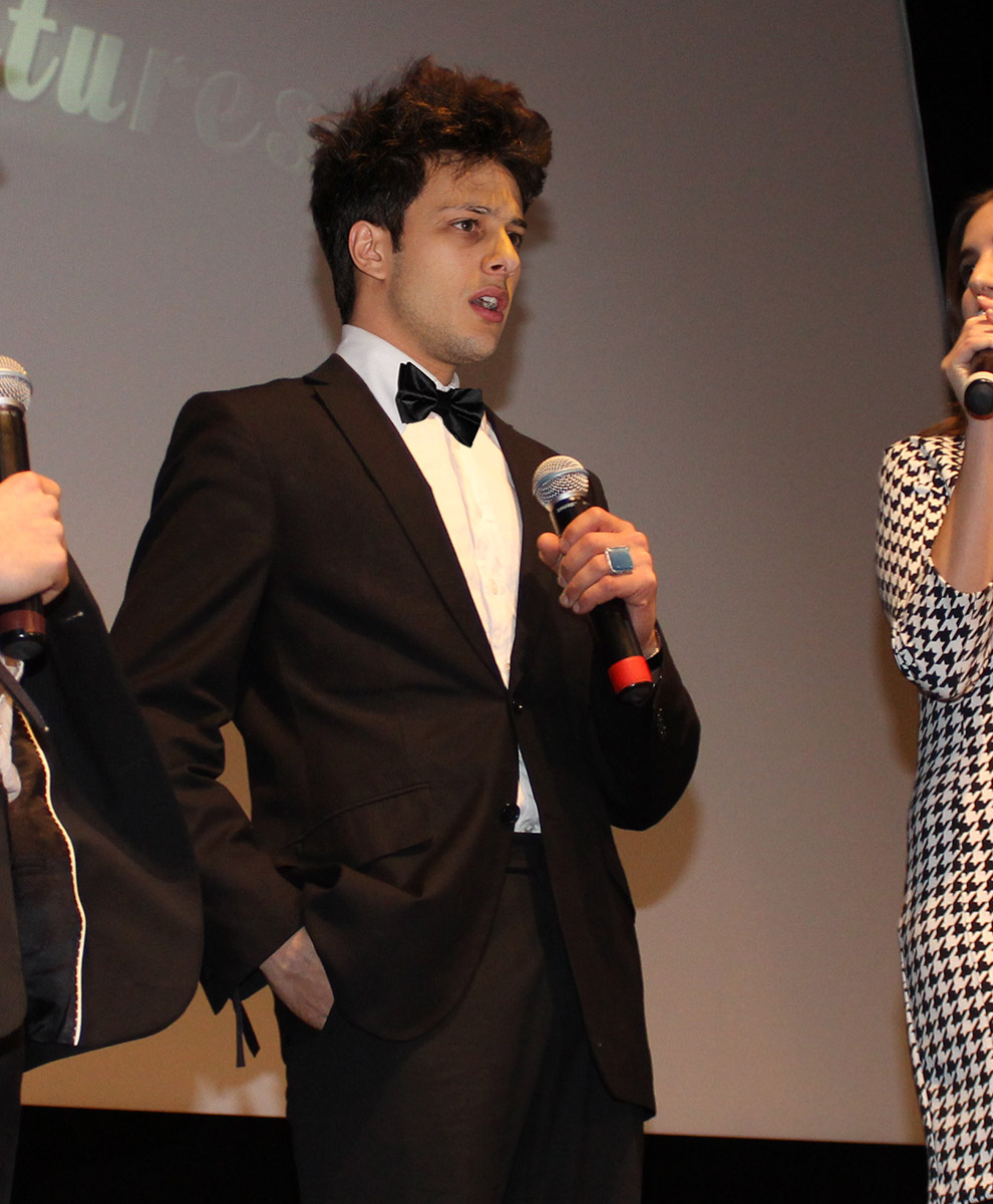 Max Olivier Film Festival